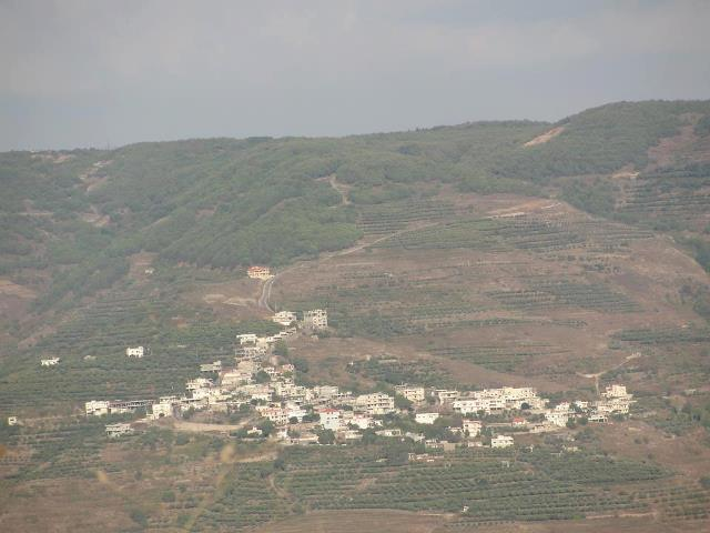 This is a picture from the mqlos village.